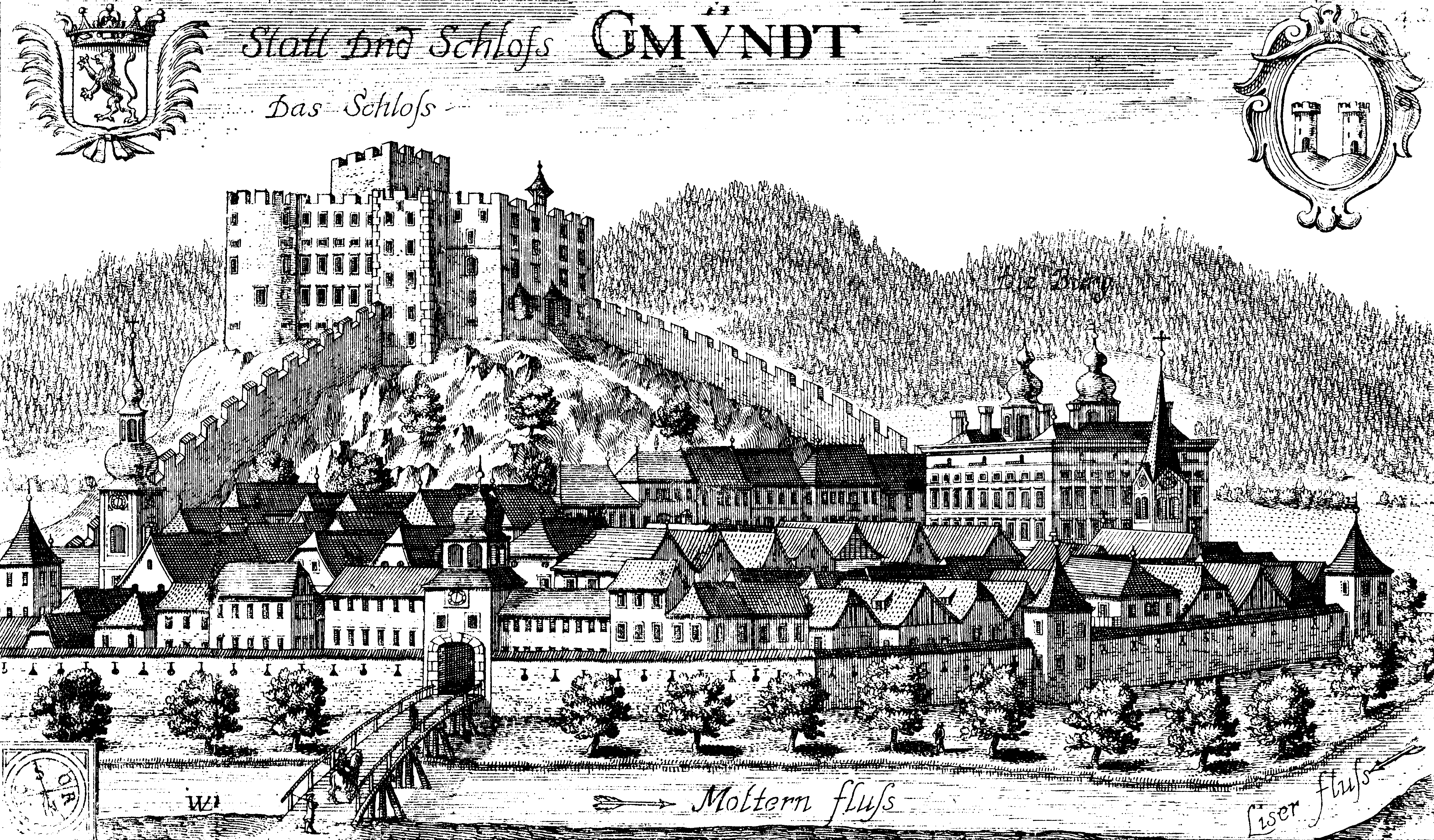 Copper engraving of the city of Gmünd, Carinthia, Austria by Andreas Trost after a drawing by Johann Weichard von Valvasor.